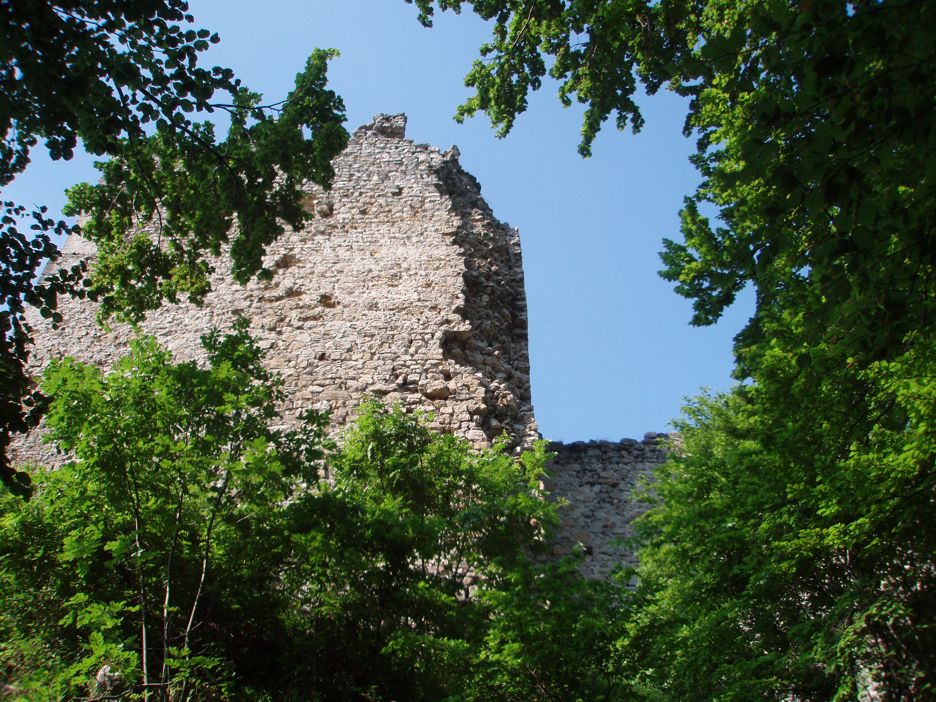 Kunšperk Castle